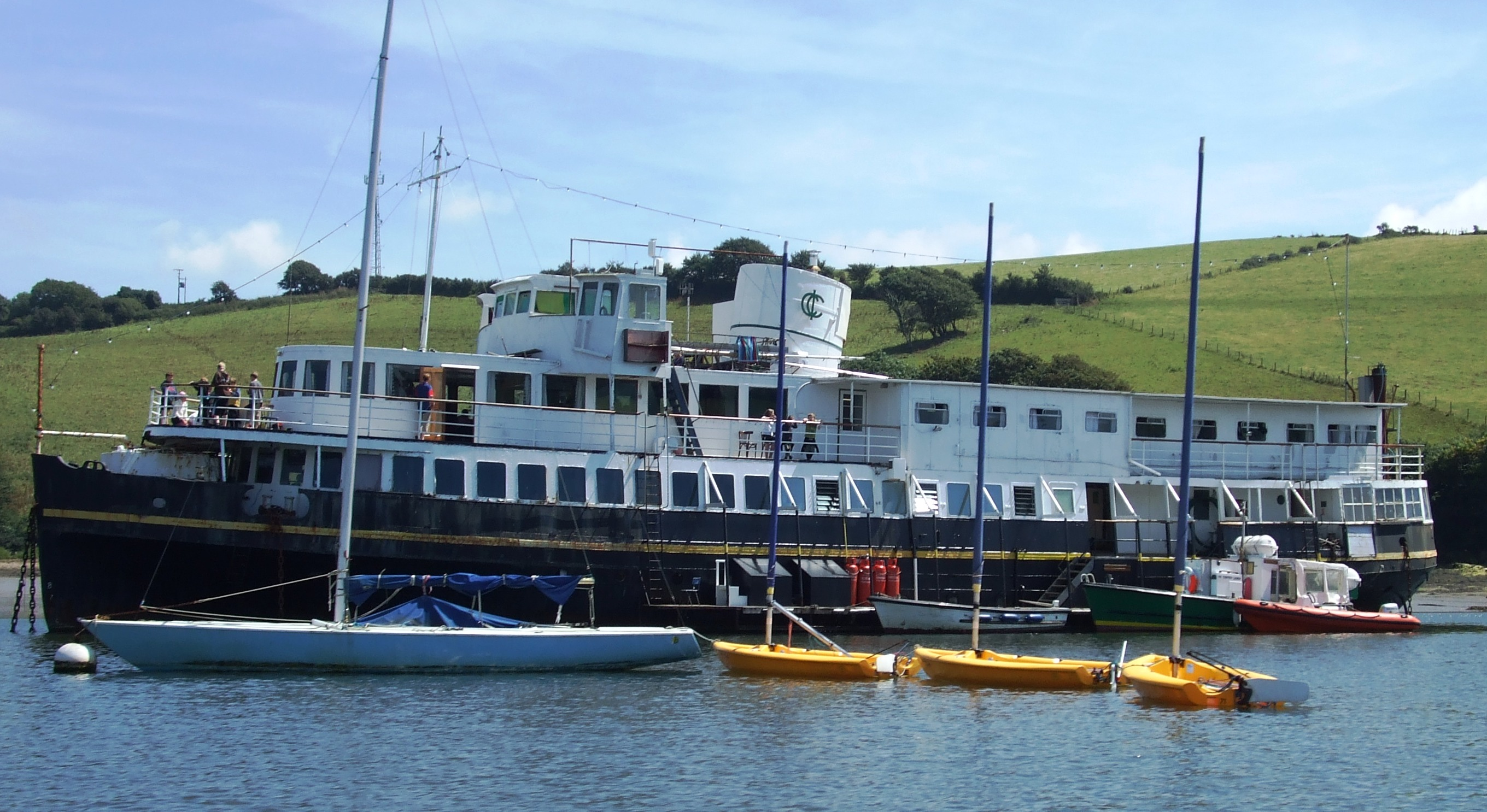 Egremont Ferry in Salcombe Harbour